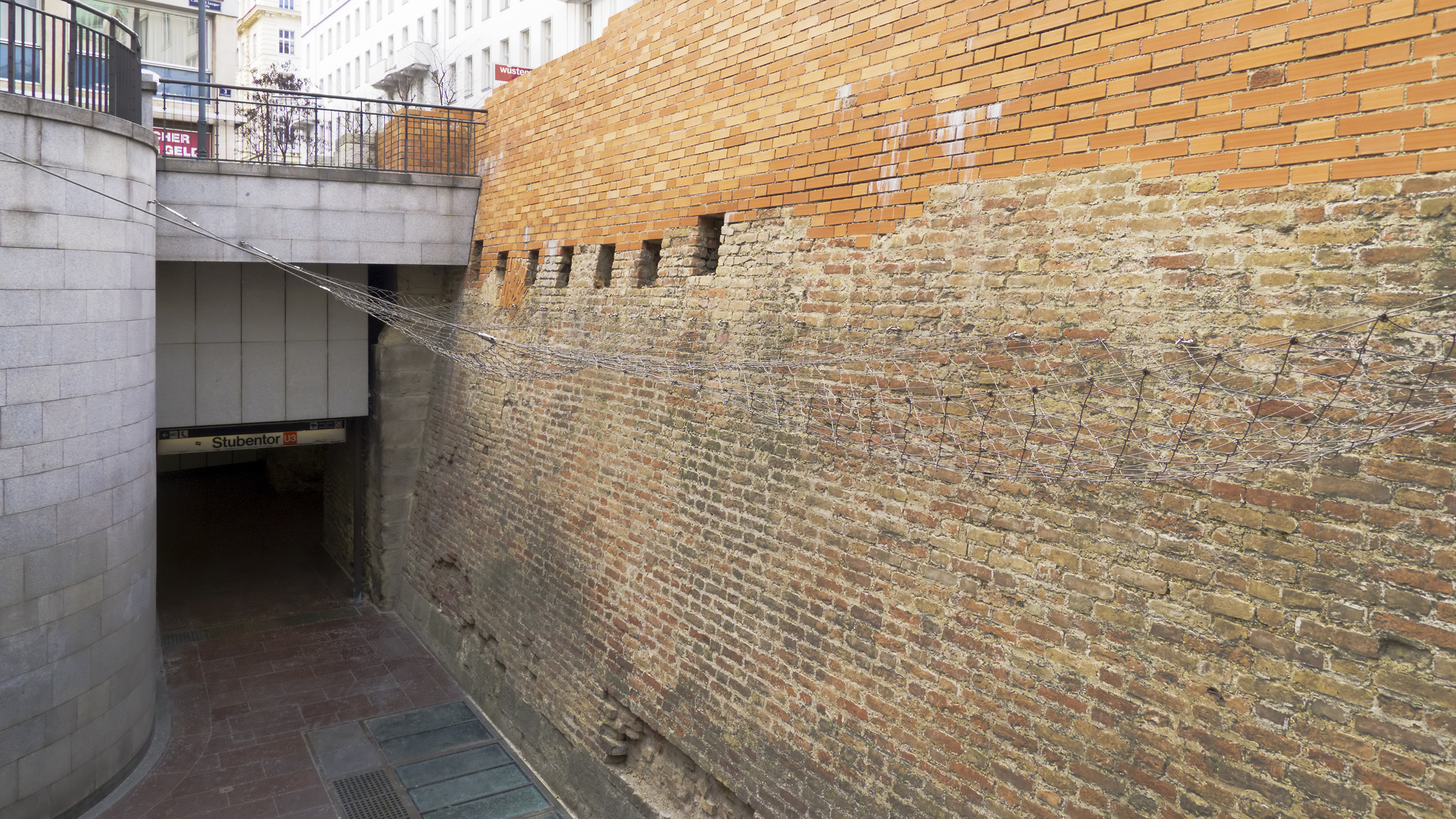 Underground station U-Bahn-Station Stubentor in Vienna